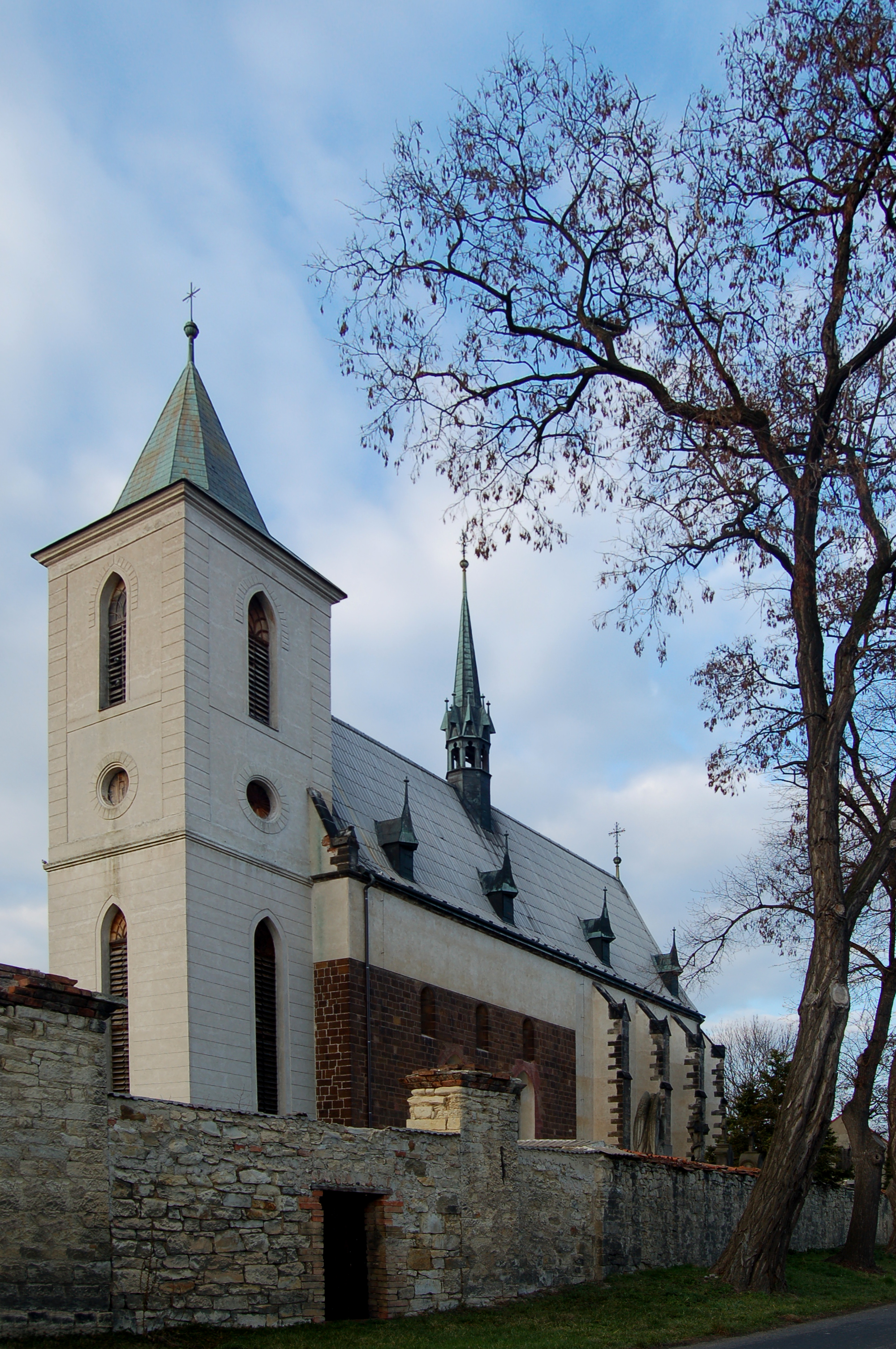 Church of St. James the Great in Slavětín, Louny District, Czech Republic